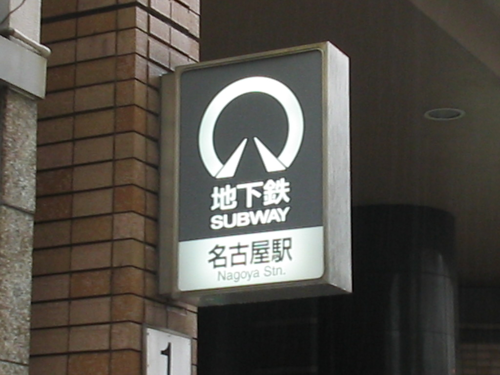 Logo of the Nagoya City Subway at Nagoya Station